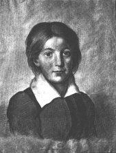 The eldest grandson of Johann Wolfgang von Goethe and son of August von Goethe, Walther Wolfgang (1818-1885)